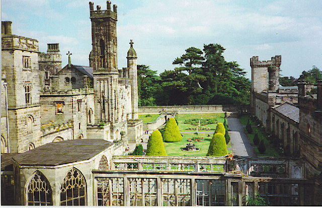 Alton Towers, Alton Towers. The ruined mansion within the theme park of the same name. Building work on the house began in 1814 for the Earl of Shrewsbury. [Thanks, Stan].